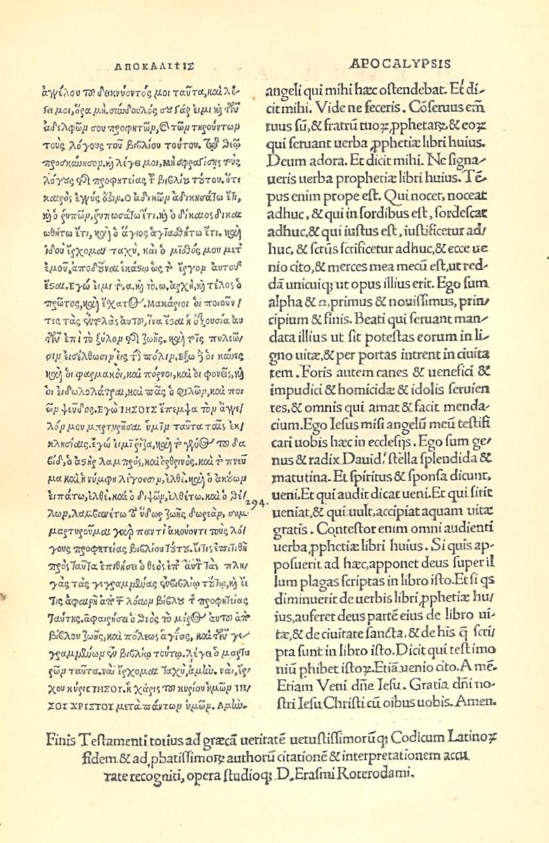 Textus Receptus: Erasmus Text of the New Testament, last page (Revelation 22:8-21), 1516.